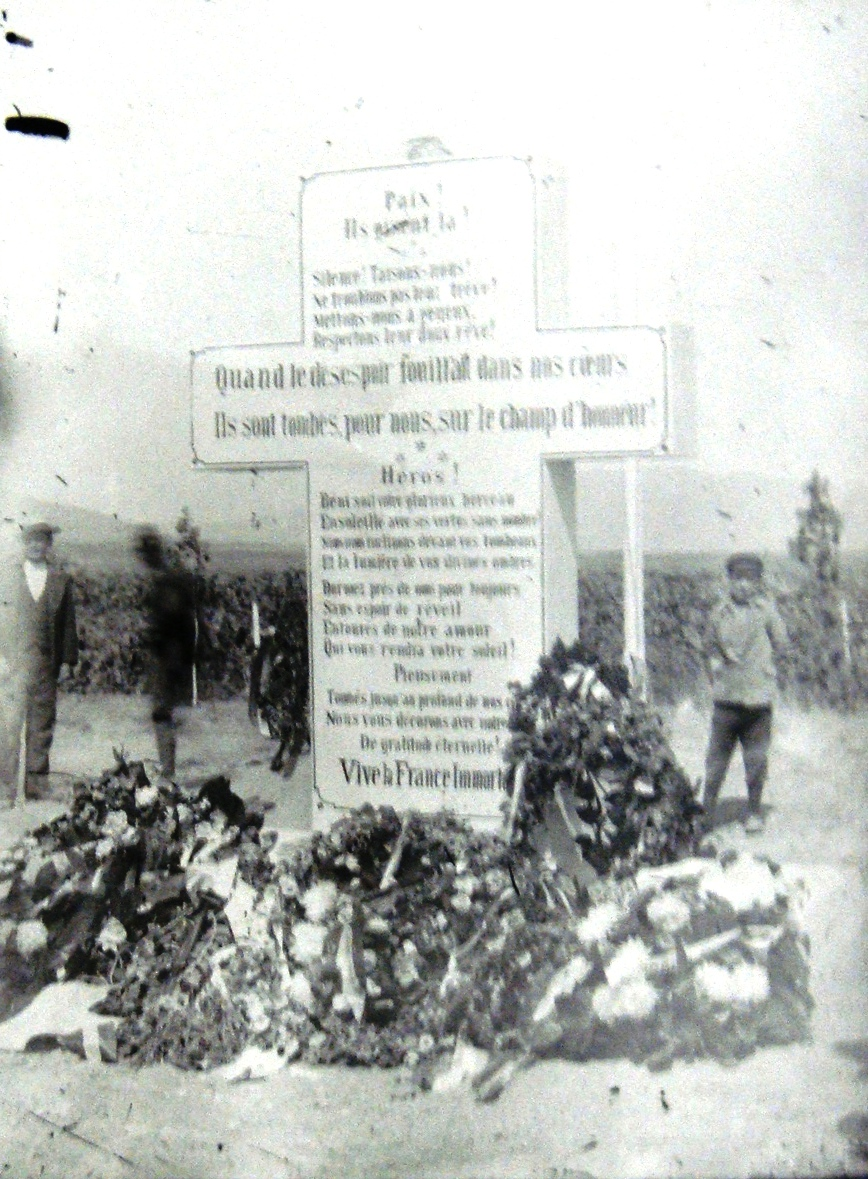 Monument of French military cemetery in Bitola, 1917-1918 This media file is produced by Wikipedian in Residence in Category:Wikipedian in Residence at DARM in 2016.